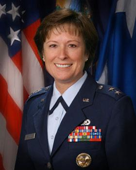 Official file of MGen Martha Rainville, Vermont Air National Guard.